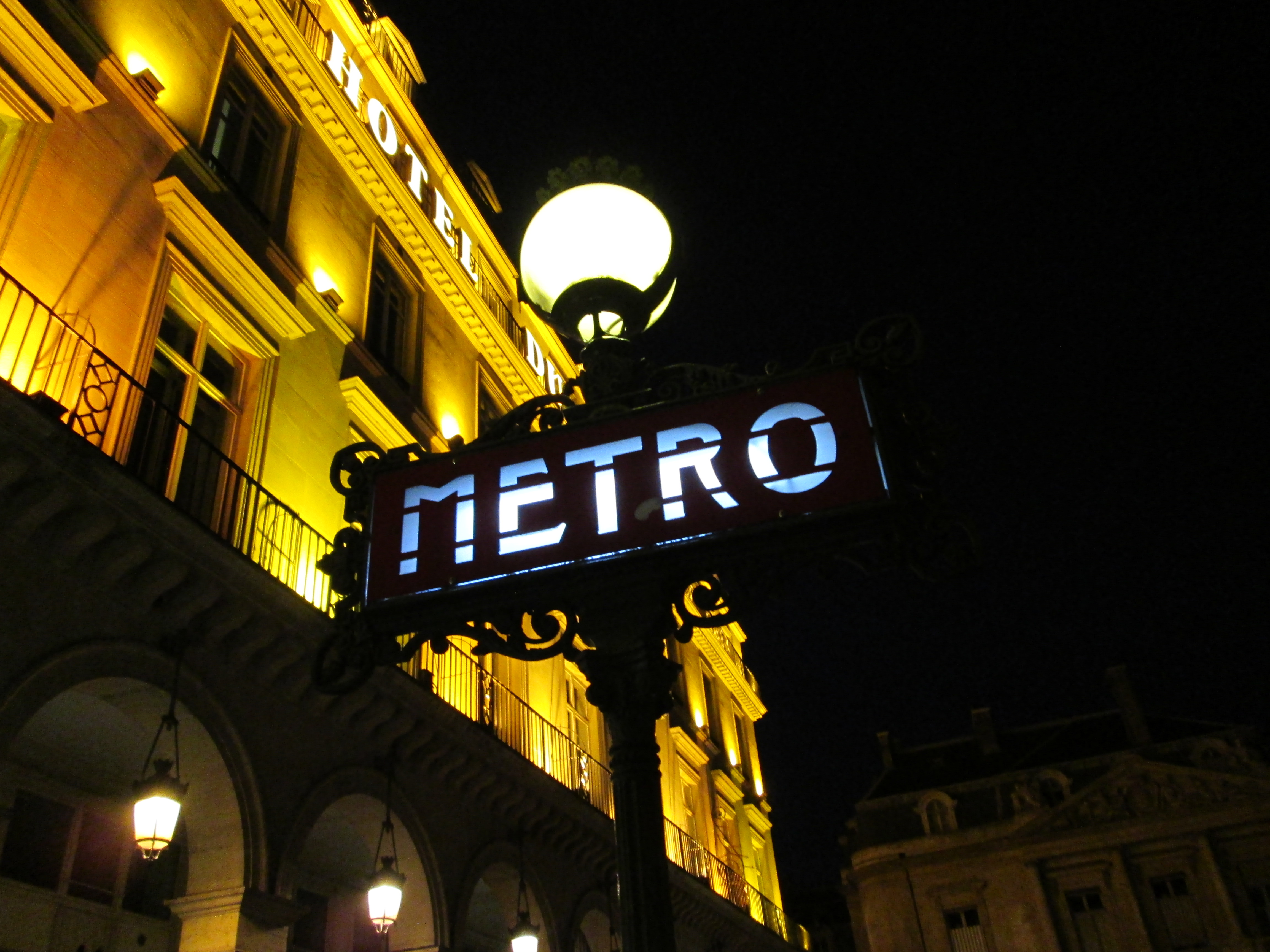 One more night in Paris